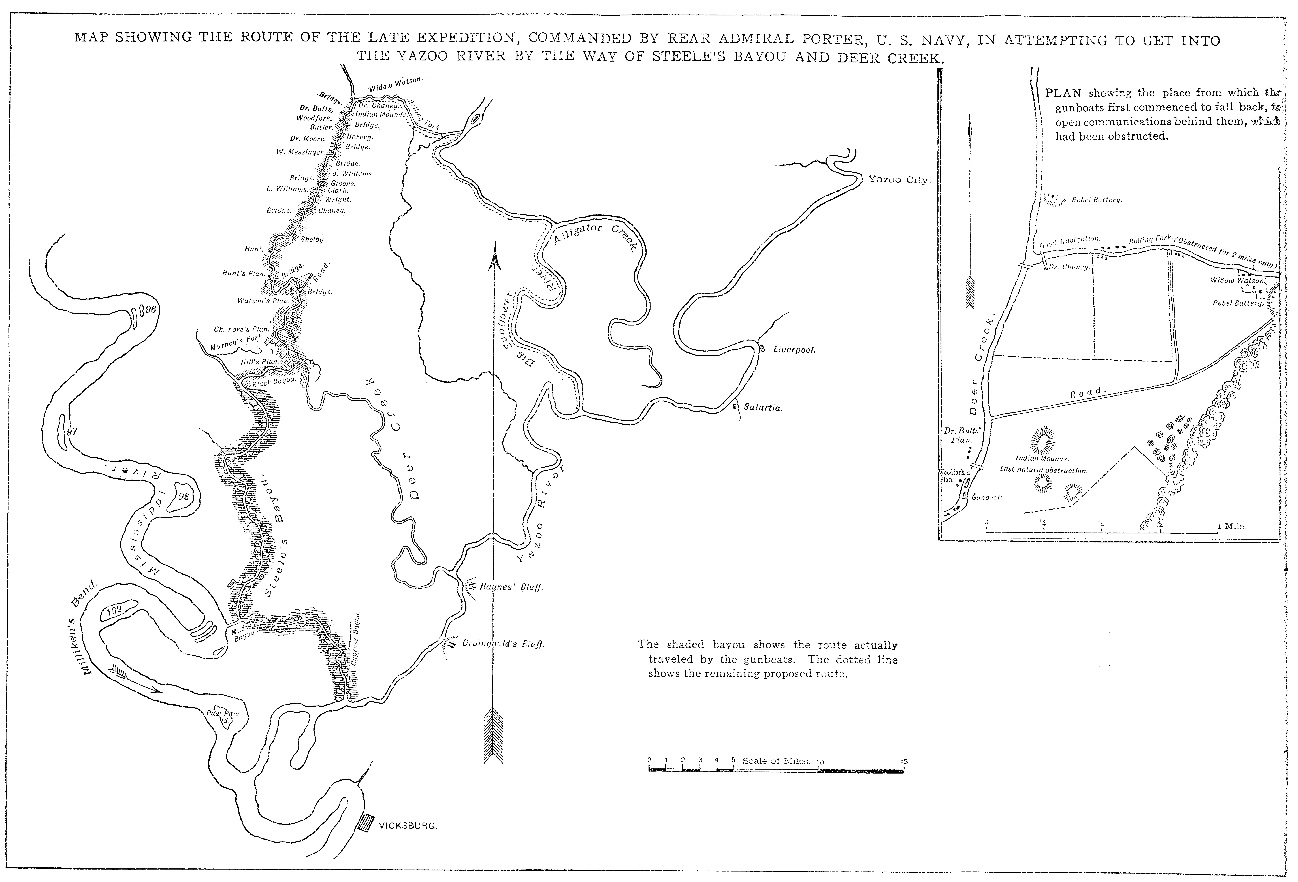 Map showing the route followed by the Union Navy vessels in the Steele's Bayou Expedition of the American Civil War, March 1863.